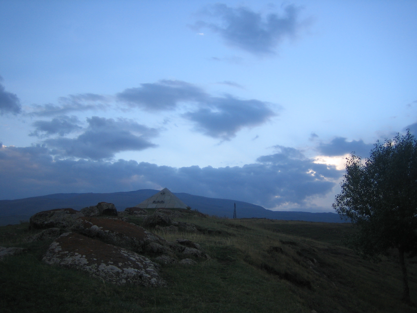 The mausoleum of Drastamat Kanayan in Aparan, Armenia, with Mt Aragats in the background.